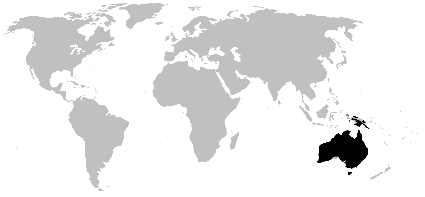 Distribution of Myobatrachidae.